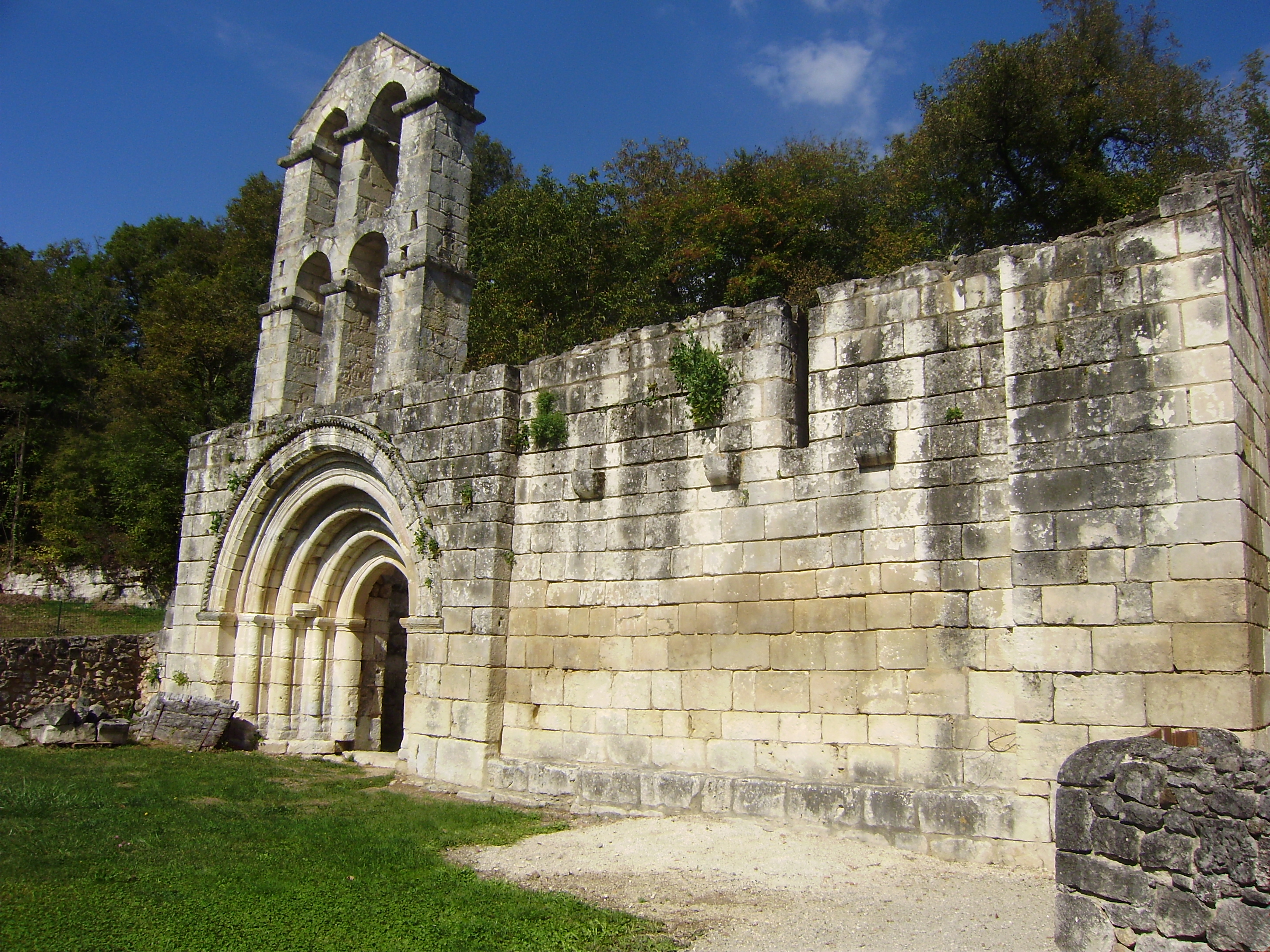 Benedictine priory (12th century) in Belaygue, commune of La Gonterie-Boulouneix, near Brantôme, Dordogne department, France.